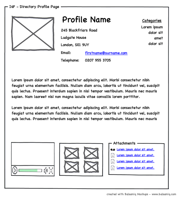 A wireframe document for a person profile view created using Balsamiq